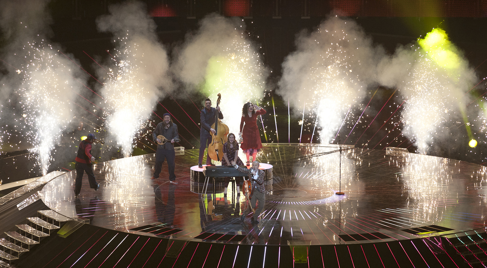 Dino Merlin from Bosnia and Herzegovina performing "Love in Rewind" at Eurovision Song Contest 2011 in Düsseldorf